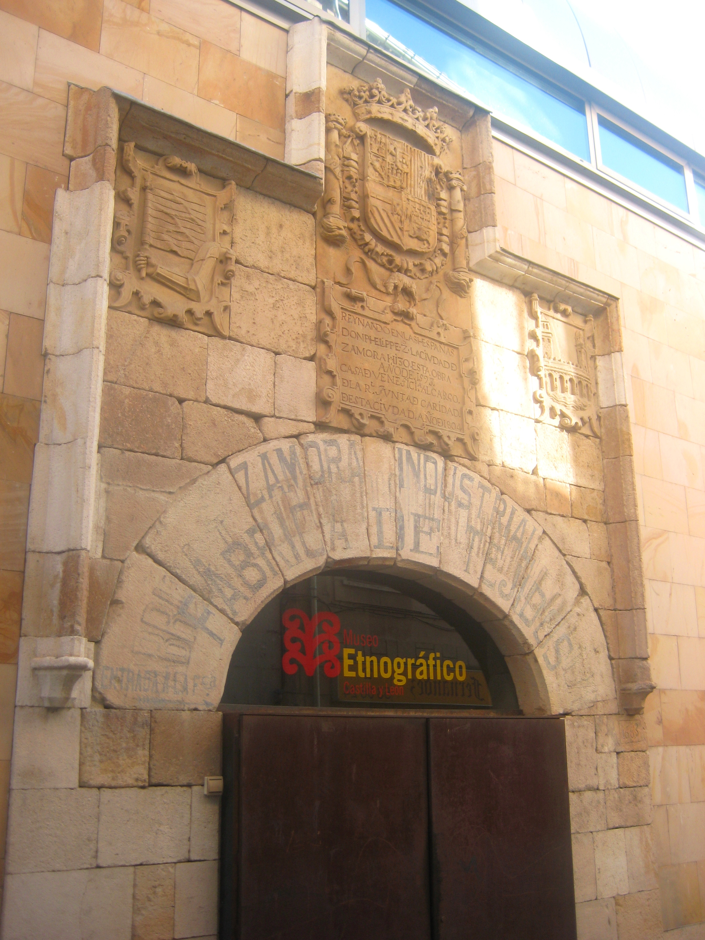 Façade of the former Royal Prison of Zamora, Spain, work of 1593, nowadays Ethnographic Museum of Castile and León.